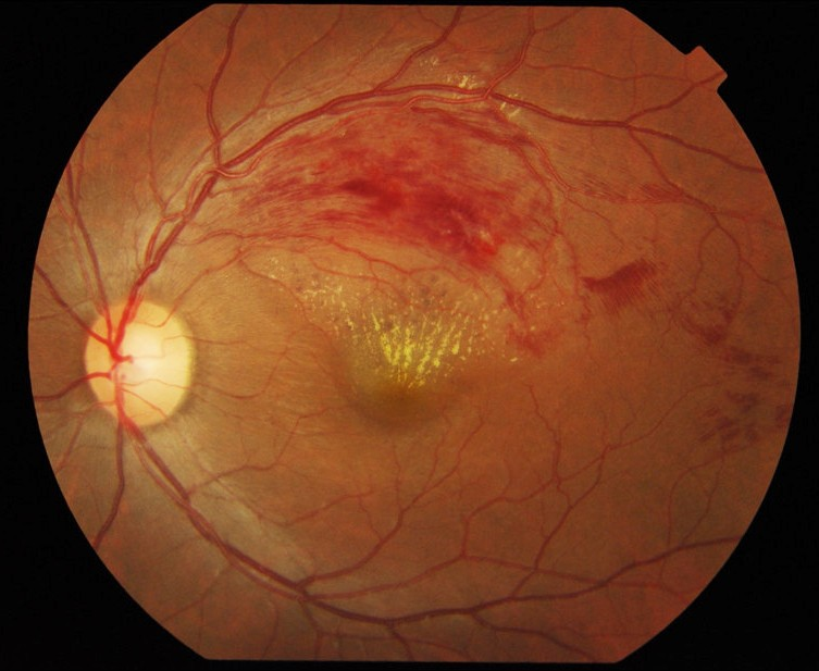 Color fundus photograph of the left eye shows occlusion of the superotemporal branch of retinal vein resulting in intraretinal hemorrhages and retinal exudates in the corresponding sector of retina.